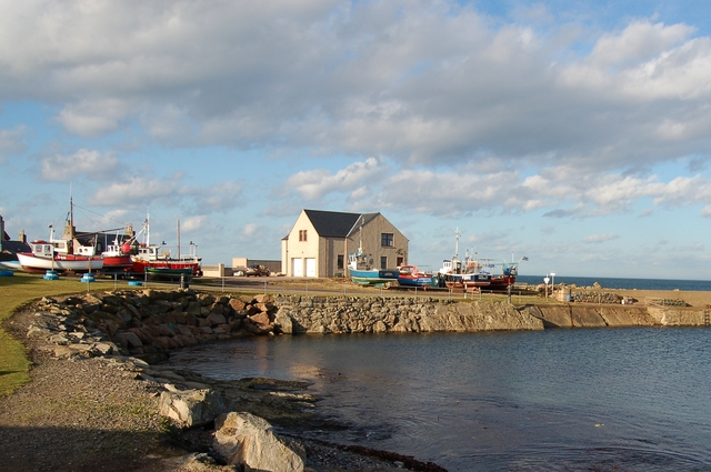 Rosehearty Harbour, near to Rosehearty, Aberdeenshire, Great Britain. Despite the summery look of the weather, this is February, and many boats are out of the water for winter works.